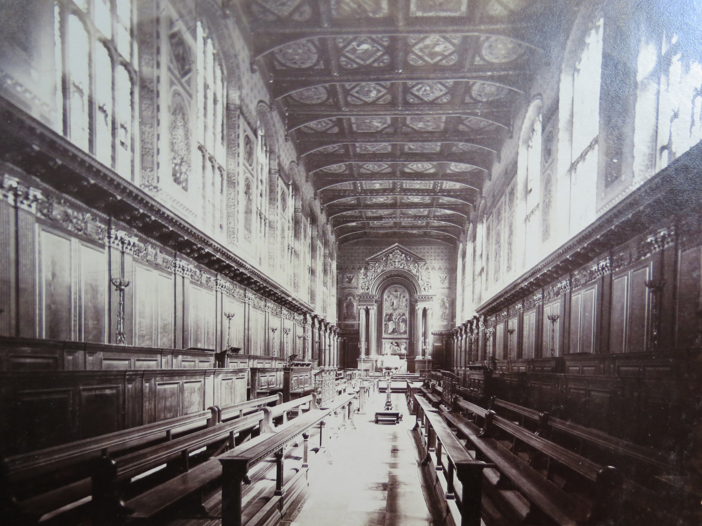 Trinity College, Cambridge University. Interior of the Chapel, circa 1870. Image taken from original albumen print from a bound album of 58 Cambridge University photographs. Original 19th century album in the possession of Kimberly Blaker, New Boston Fine and Rare Books.